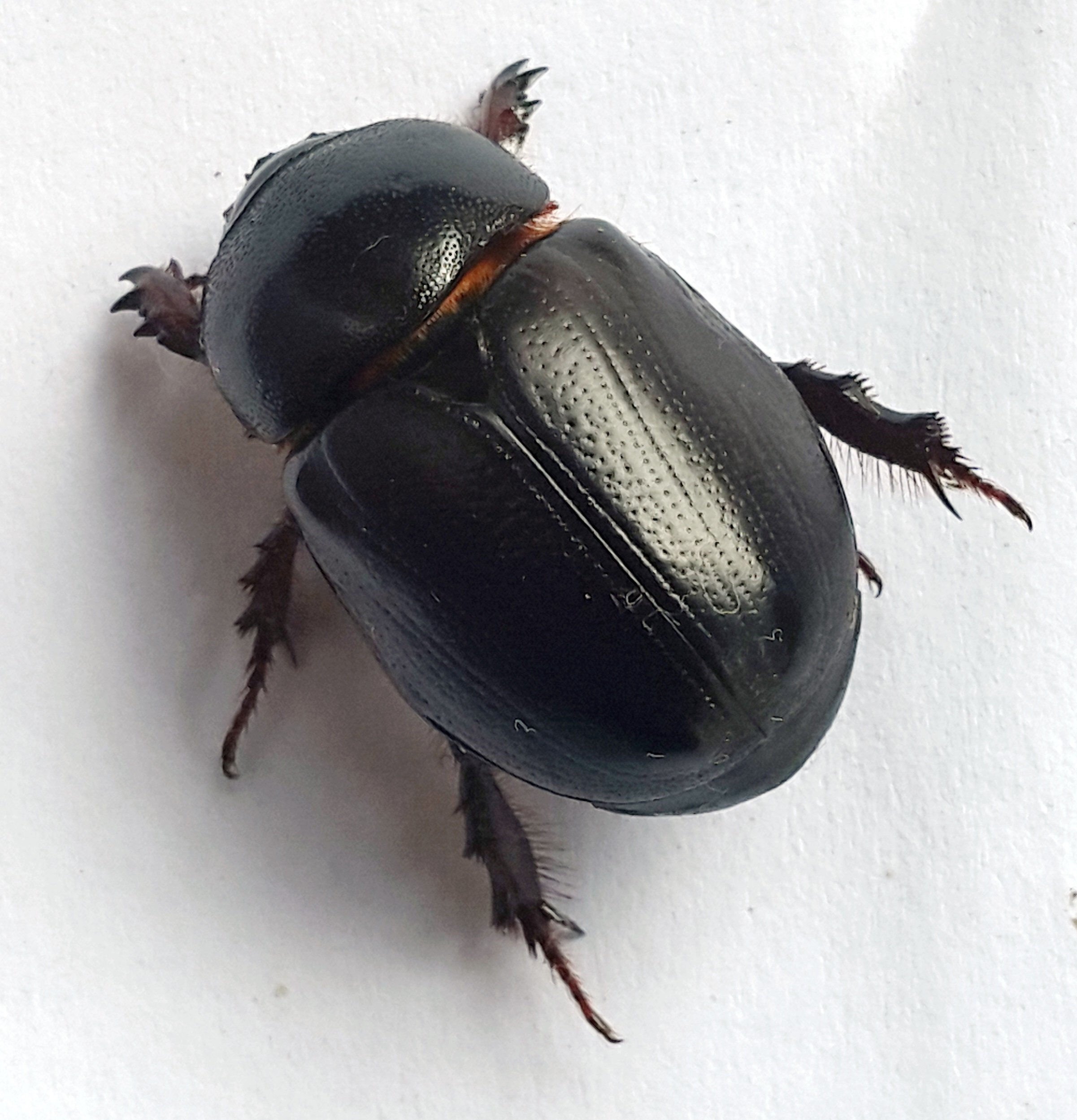 Heteronychus arator - Nature's Valley, South Africa